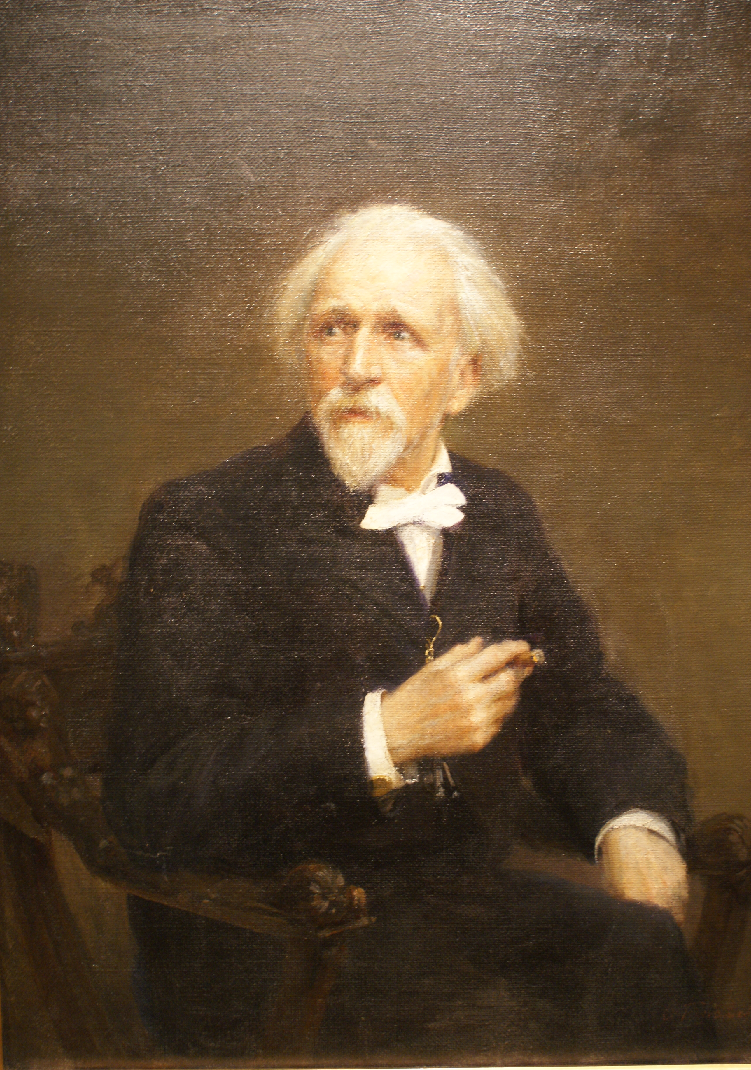 Appolinary Goravsky. Portrait of Lev Lagorio